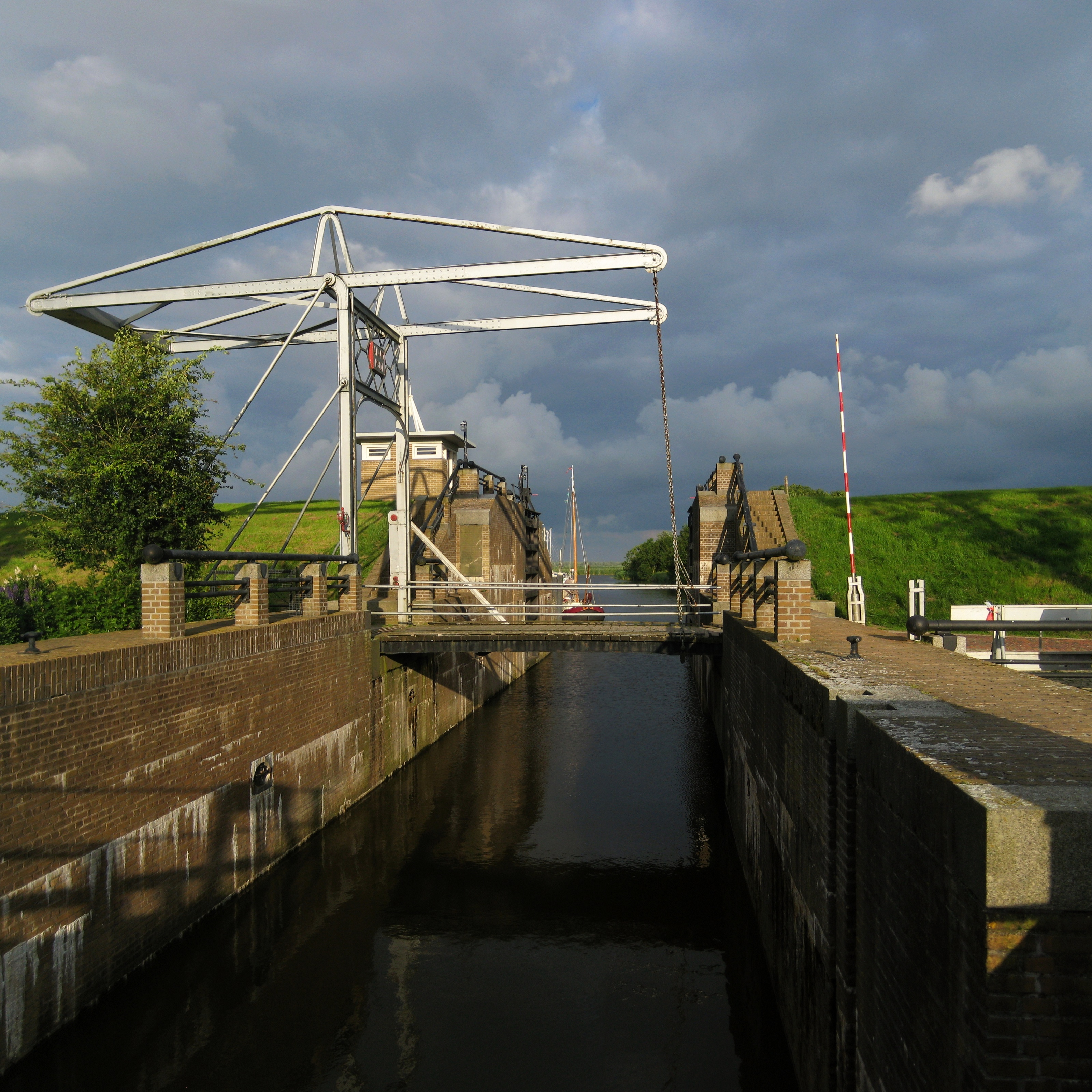 The lock on the Suder Ie in Iezumasyl, a hamlet in the Dutch province of Fryslân.